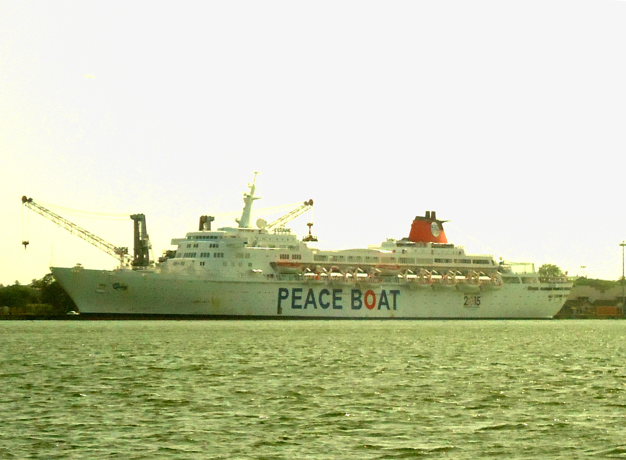 Peace Boat at Kochi